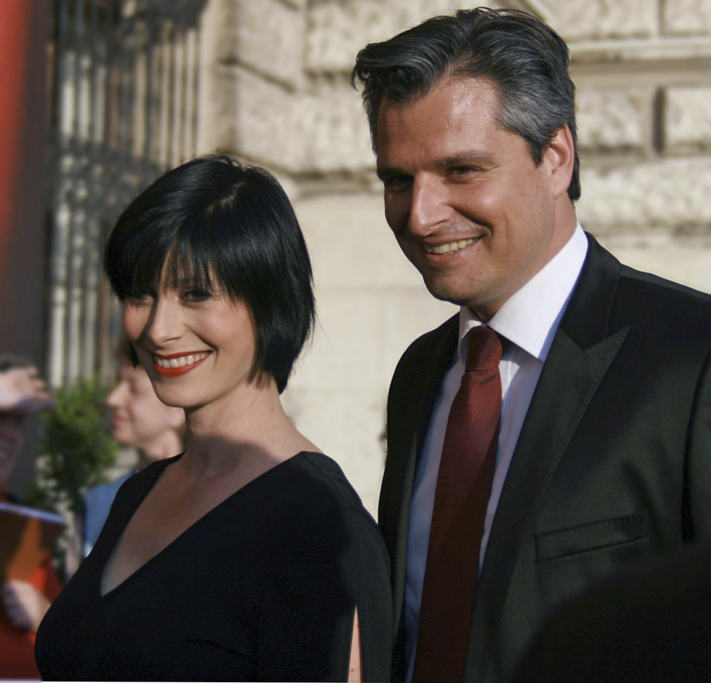 Presenter Dorian Steidl and Heike Steidl at the Romy TV awards (Hofburg Imperial Palace in Vienna)